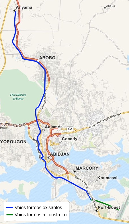 Mapping of the existing railway and it's future extension, for the Abidjan Urban Train projet, on the basis of the existing railway network.